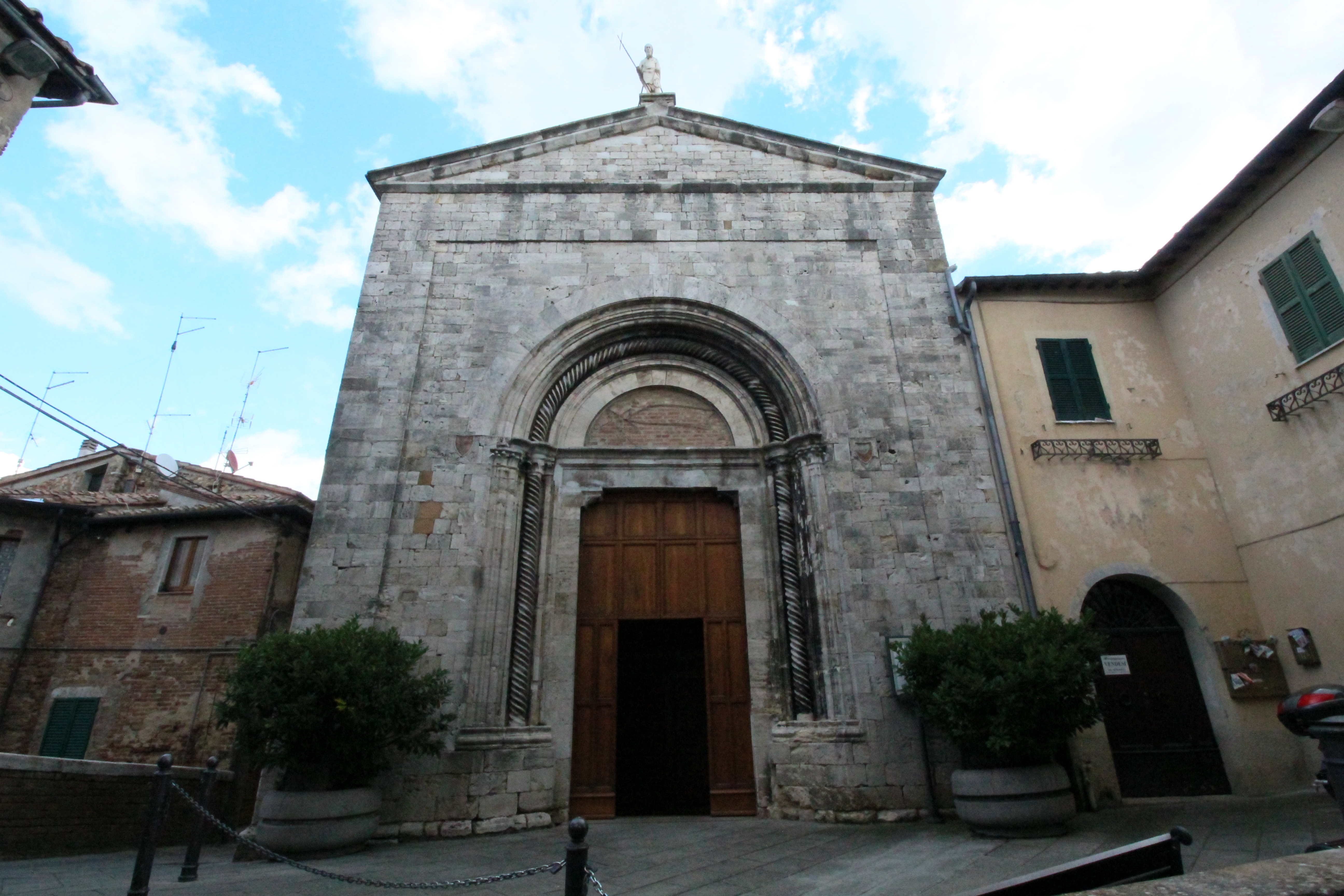 Church San Giovanni Battista (Collegiata di San Giovanni Battista), Chianciano (Chianciano Terme), Province of Siena, Tuscany, Italy.